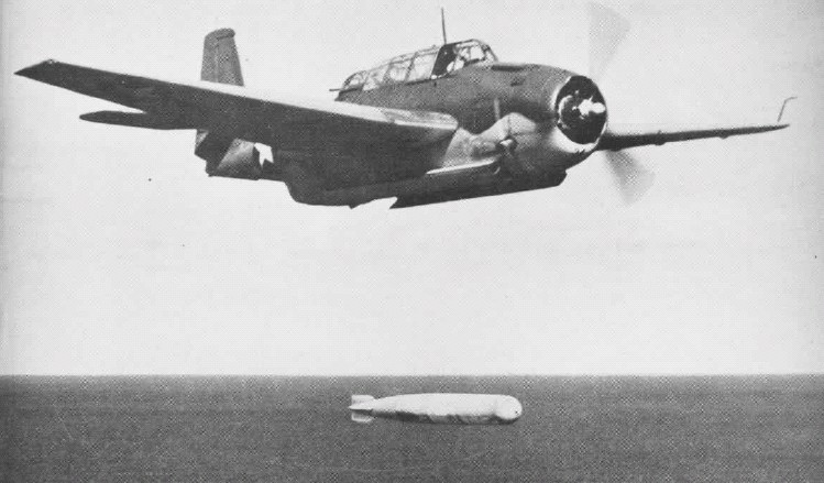 A U.S. Navy Grumman TBF-1 Avenger dropping a torpedo in late 1942 or early 1943.